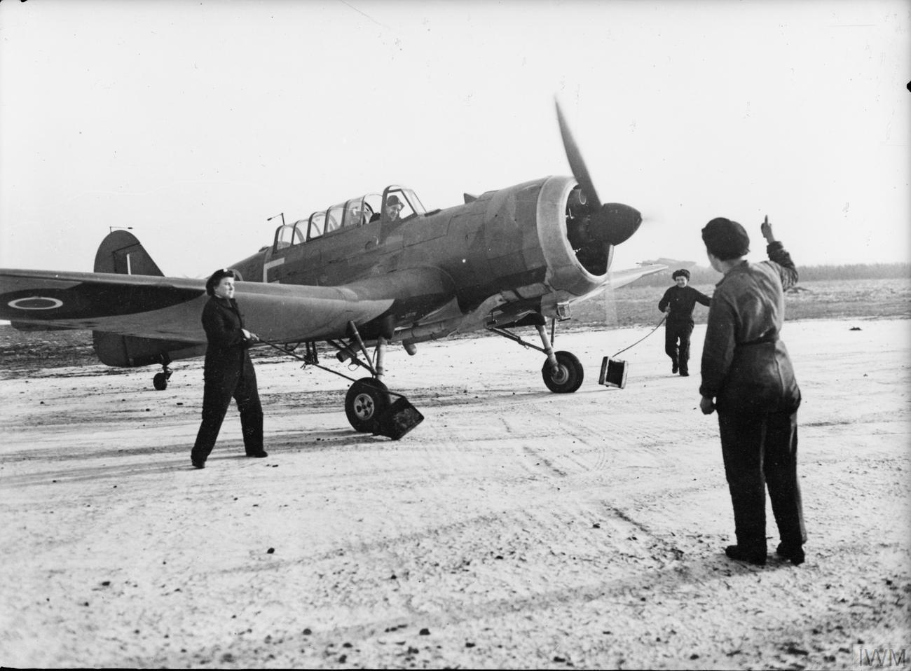 WAAF flight mechanics pull the chocks away from a Miles Martinet TT Mark I target tug of No. 289 Squadron RAF, on a hard standing at RAF Turnhouse (today Edinburgh Airport), Midlothian (UK).